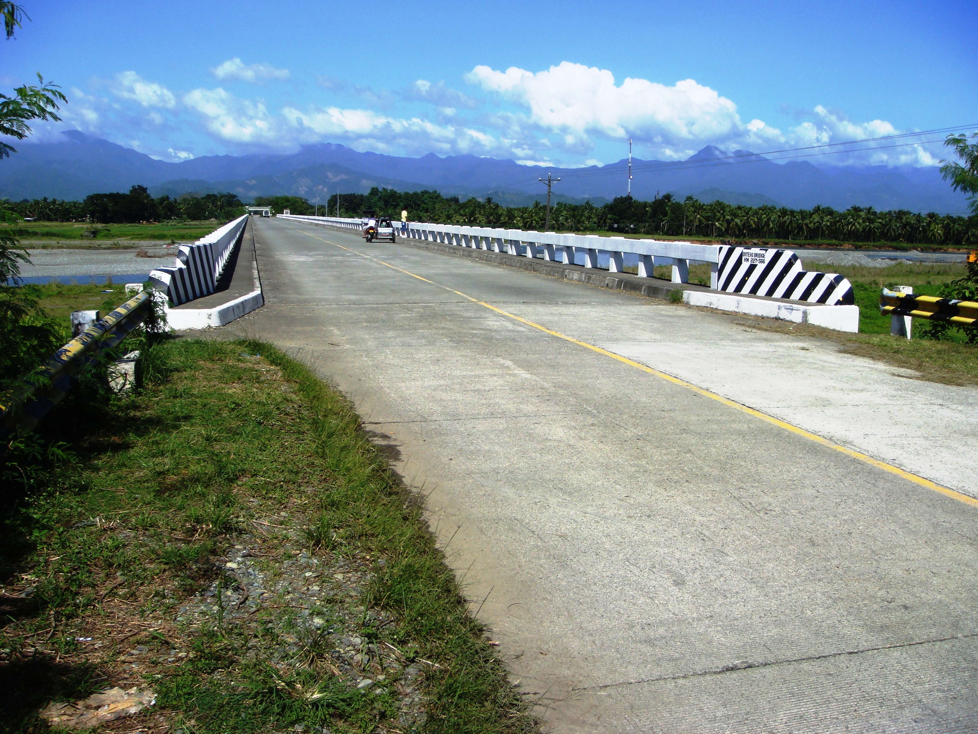 The P20-million Diteki bridge[1].